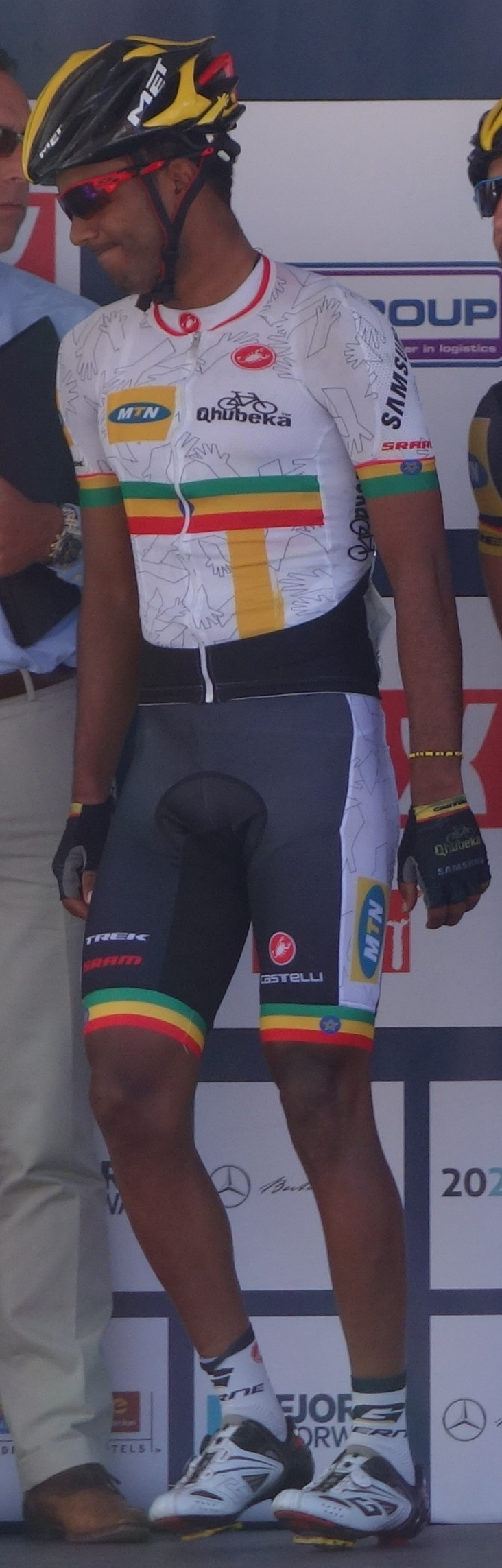 MTN Qhubeka in Bergen before stage 1 of the 2014 Tour des Fjords.